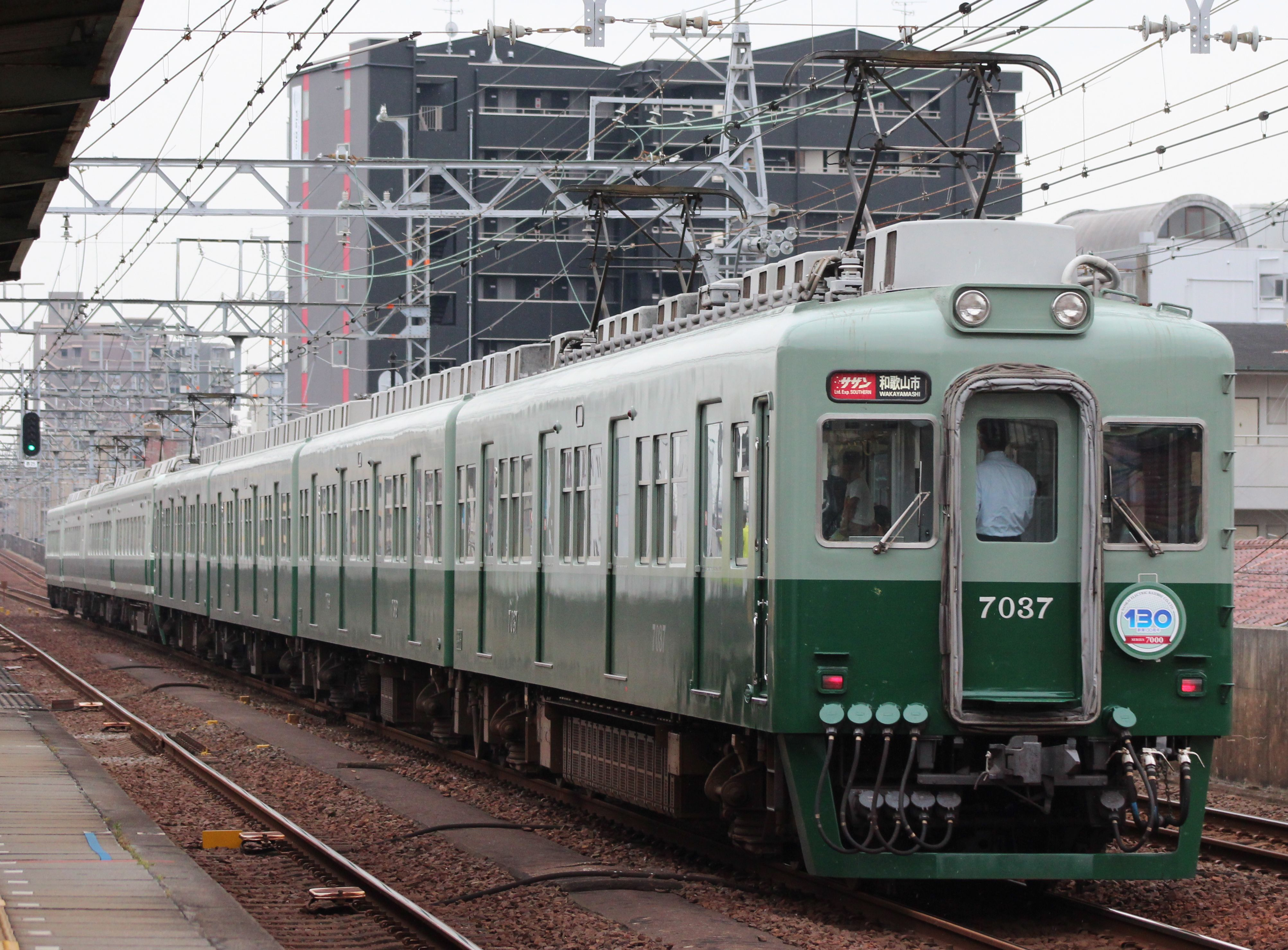 A Nankai Electric Railway 7000 series EMU in old-style livery at the rear of a Southern limited express service